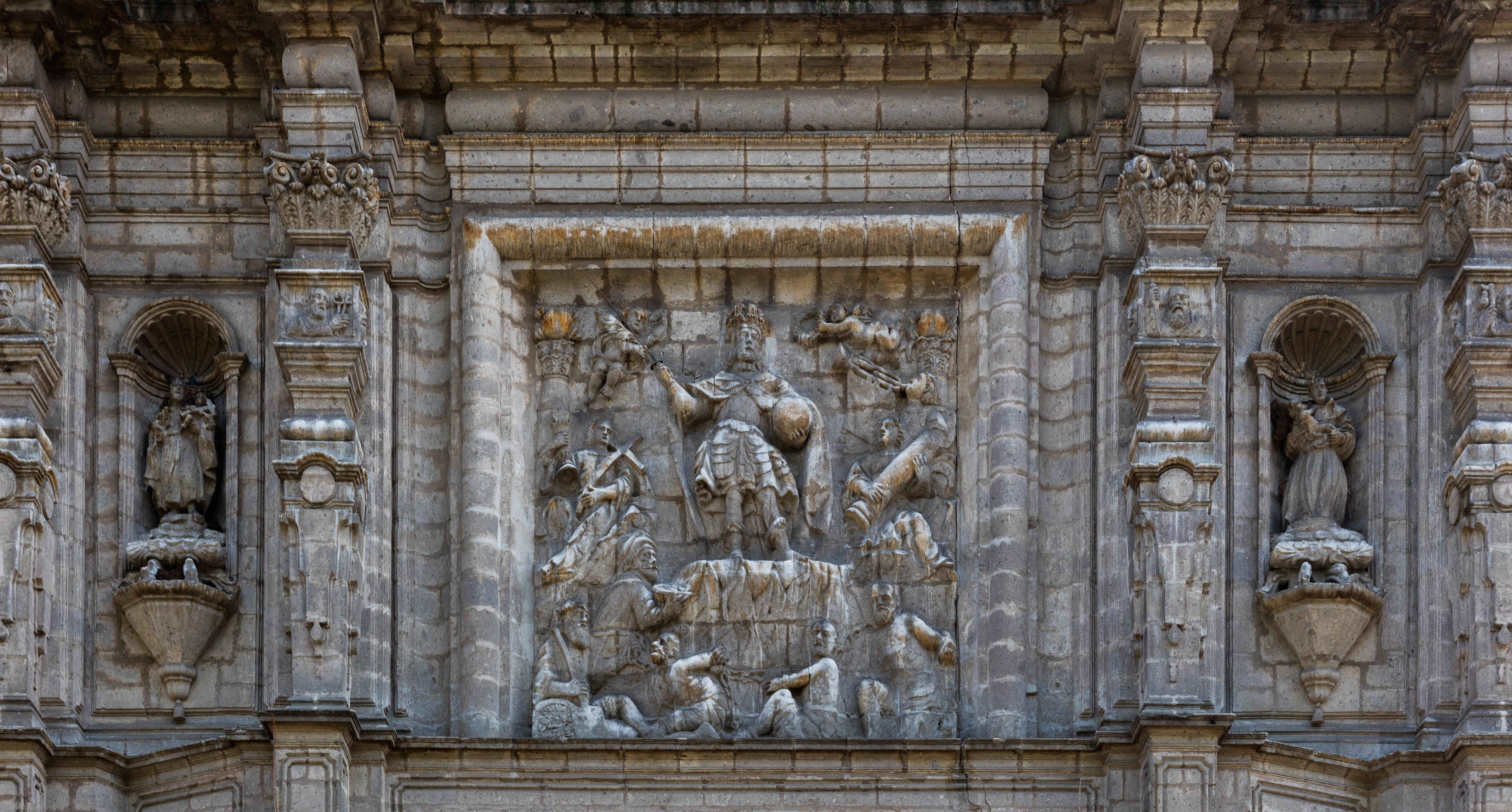 St Ferdinand church, Mexico City, Mexico